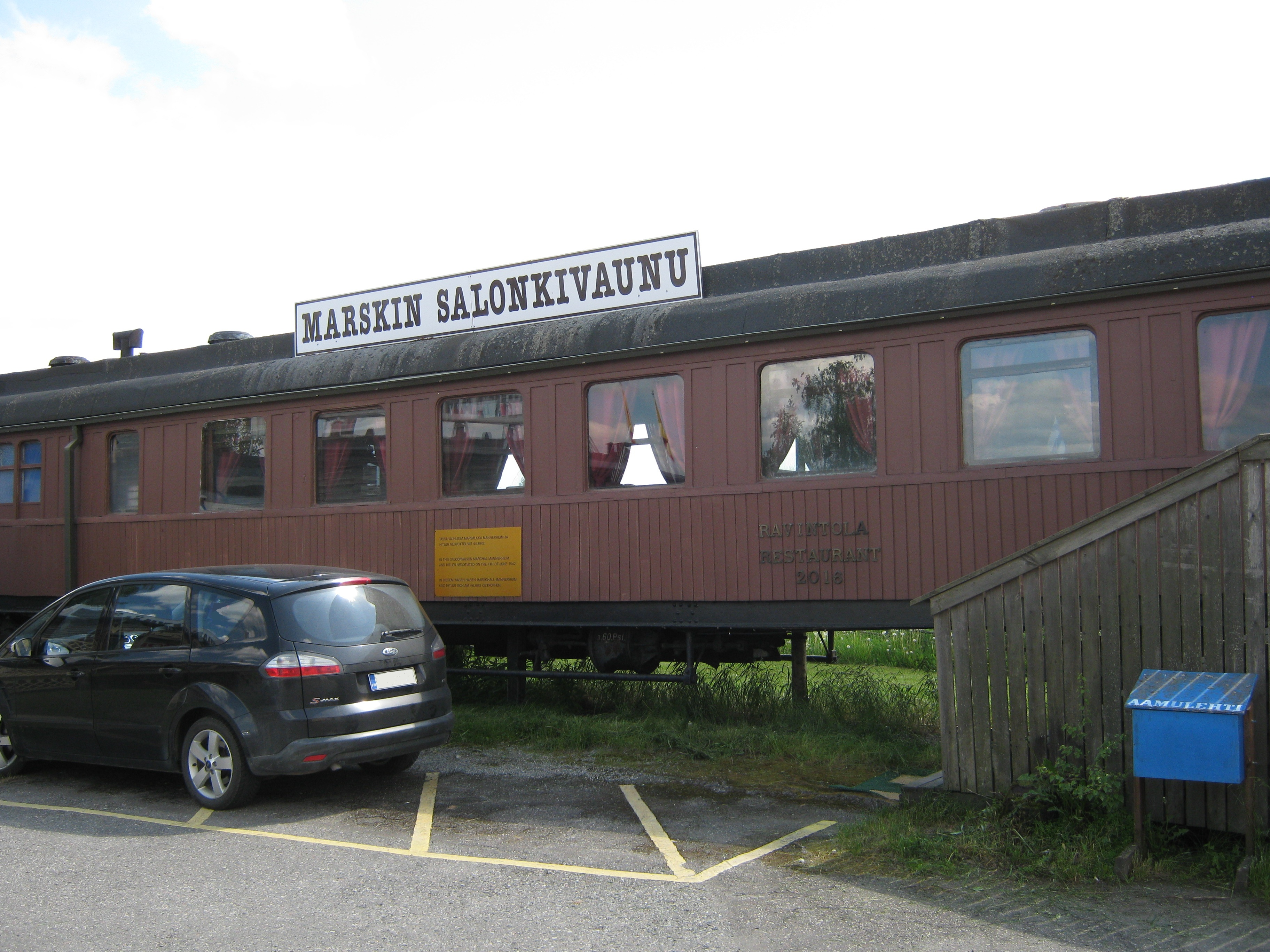 The saloon wagon where Adolf Hitler and C.G.E. Mannerheim met in 4 June 1942, Sastamala, Finland.